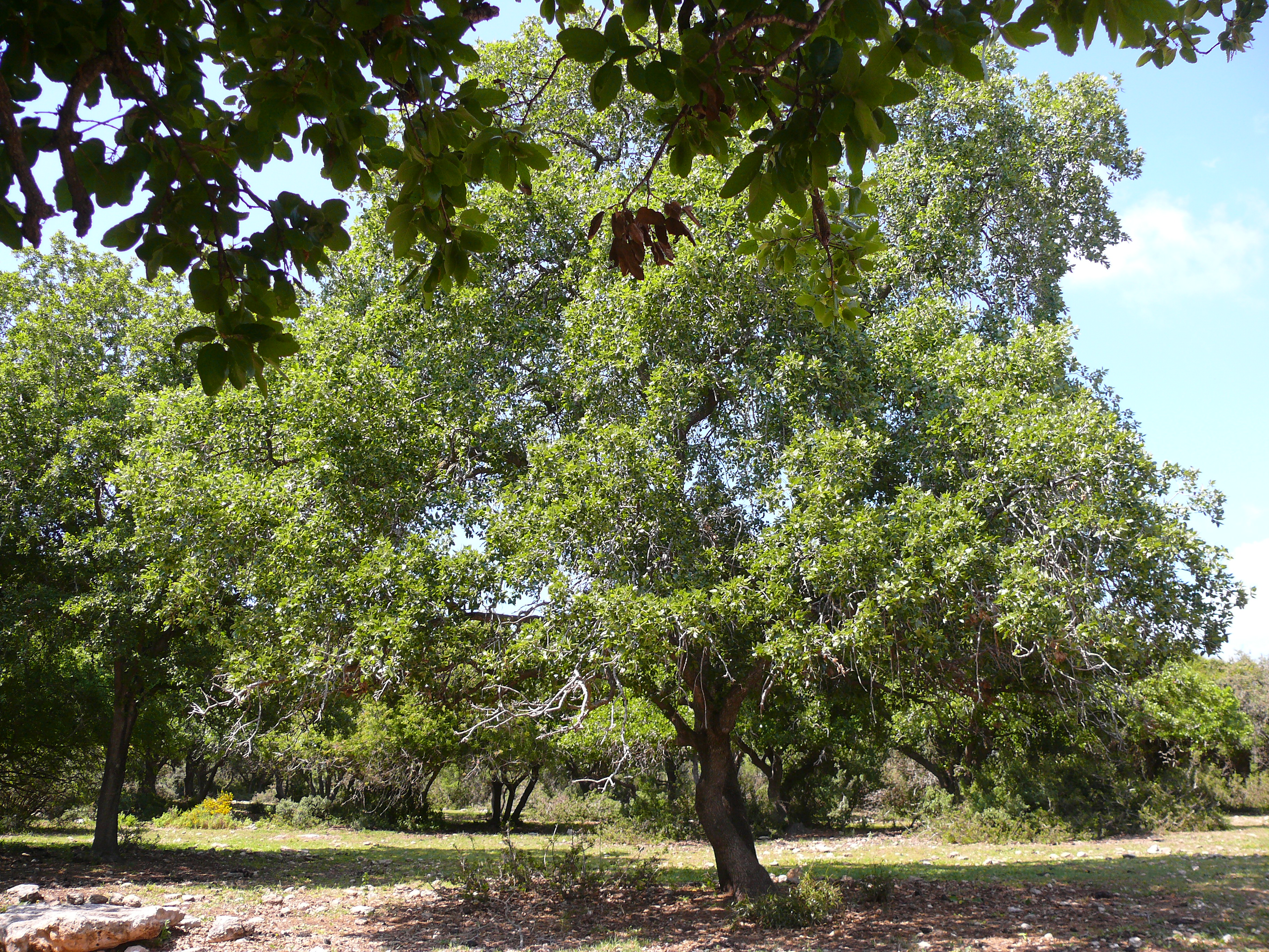 Quercus ithaburensis, Mount Chorshan reserve, Israel